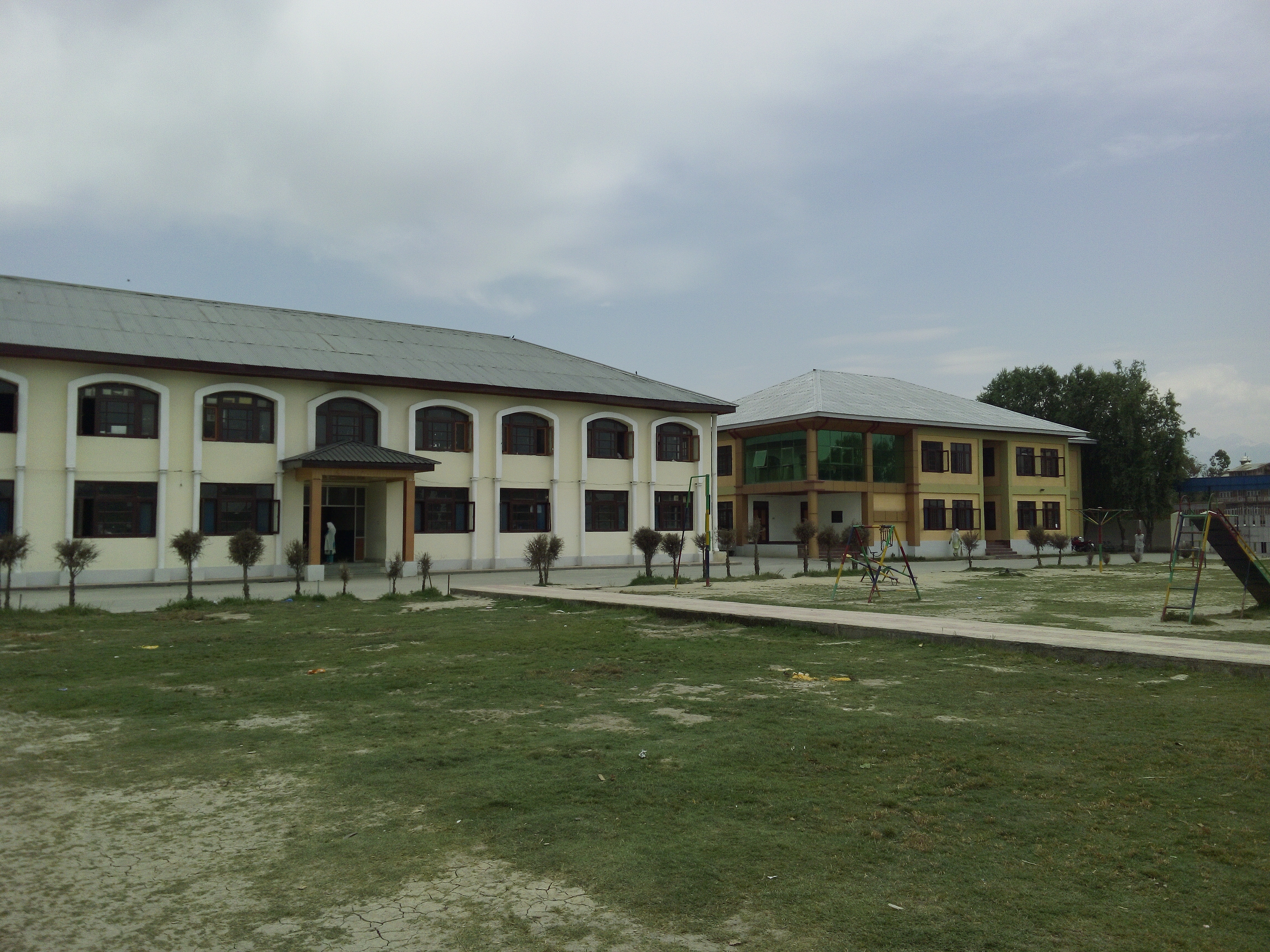 This is the recent image of new created block of the J&K PPS Bemina